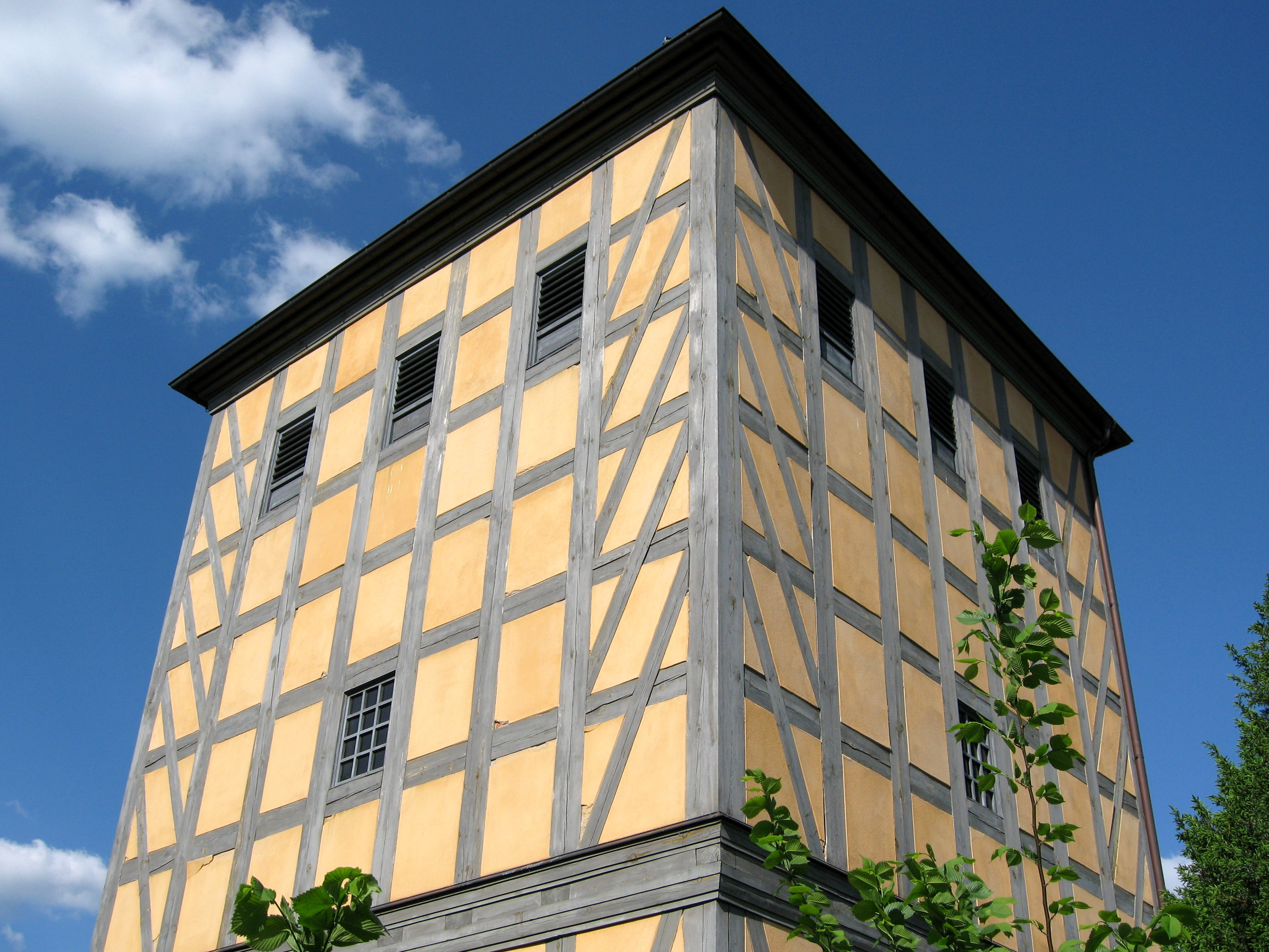 South-western view of belfry of church in Prenden (Wandlitz) in Brandenburg, Germany